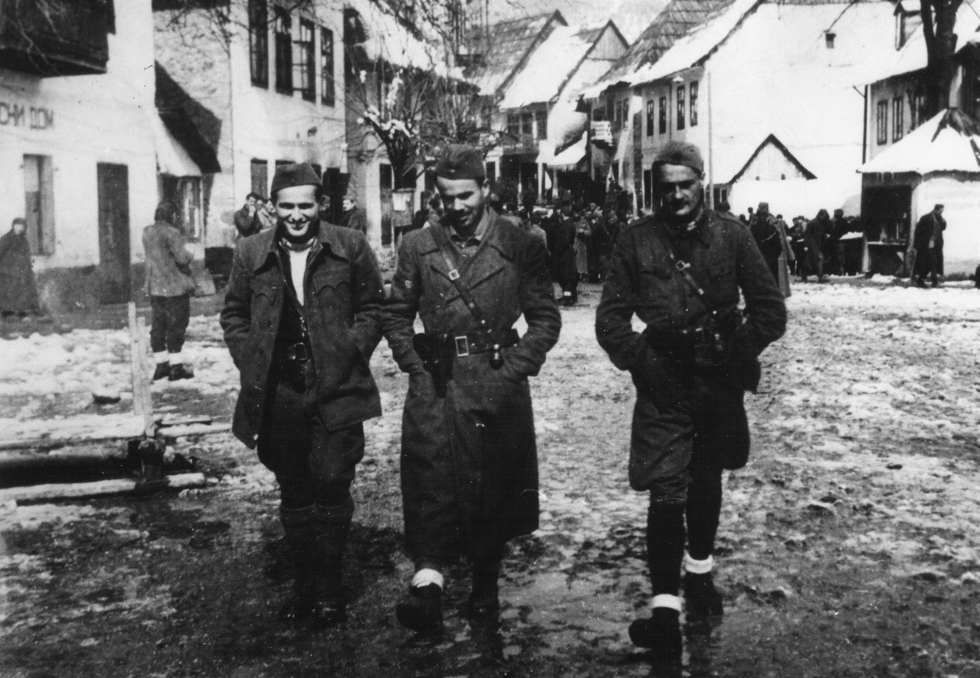 From the left:Nikola Gazević, Veljko Mićunović and Boško Đuričković.